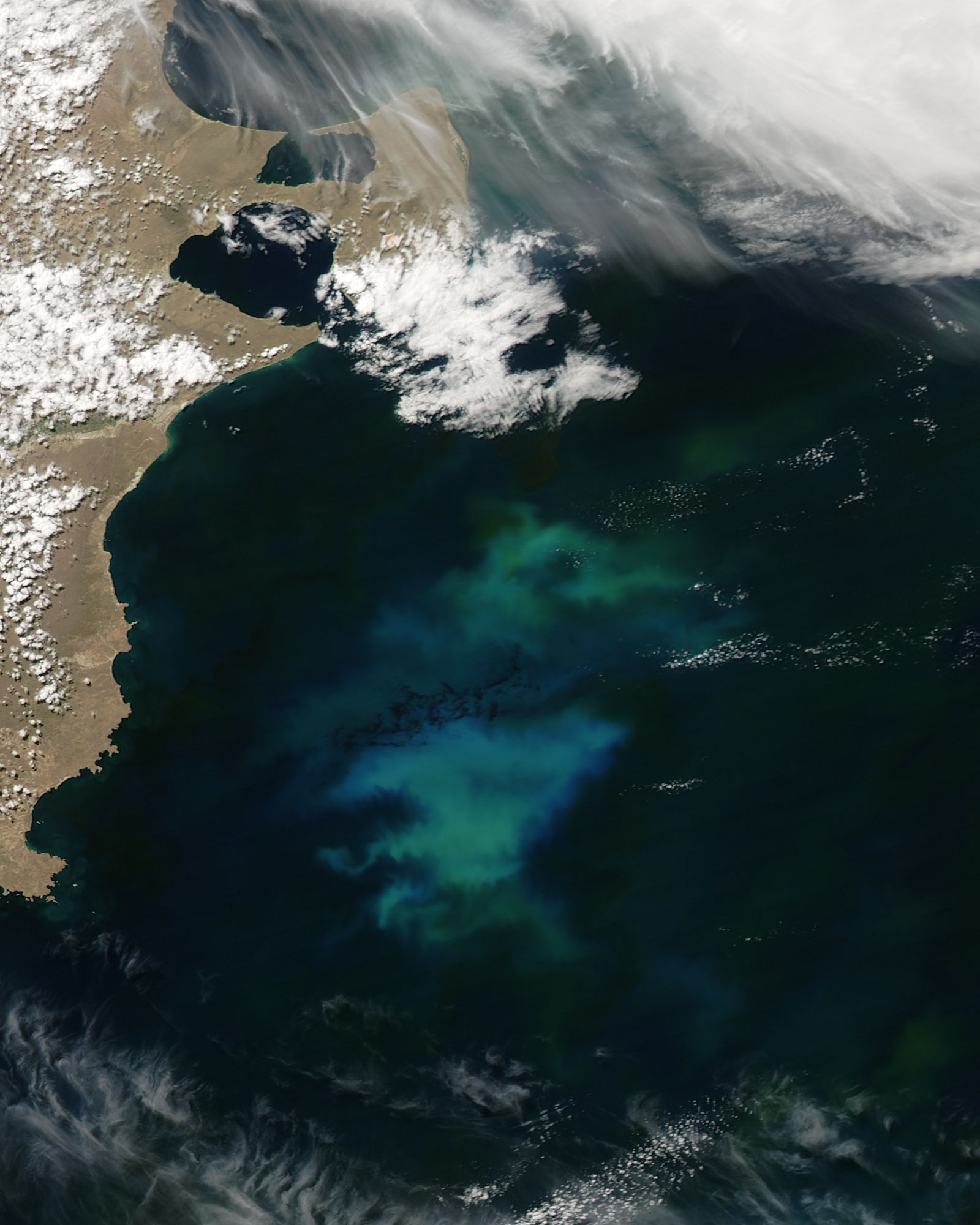 Brilliant greens and electric blues swirled in the Southern Atlantic Ocean off Argentina in the spring of 2013. The Moderate Resolution Imaging Spectroradiometer (MODIS) aboard NASA’s Aqua satellite captured this true-color image of the colorful event on November 9 at 18:45 UTC (3:45 p.m. Argentina Time). The colors are created by a massive bloom of phytoplankton, which are microscopic plant-like organisms that form the base of the marine food chain. Many species of phytoplankton live in the waters off Argentina year-round in small numbers. When conditions become favorable – typically when nutrient levels increase, sunlight increases and water temperatures reach proper levels – the phytoplankton begin an explosive growth cycle, creating massive blooms such as this one. A bloom may last several weeks, but each organism within the bloom lives only a few days.